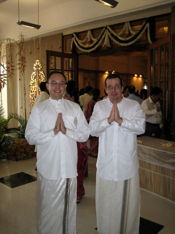 Chennai India Silk (left), Cotton (right) Dhoti wrapped around the waist. It is worn is numerous styles.